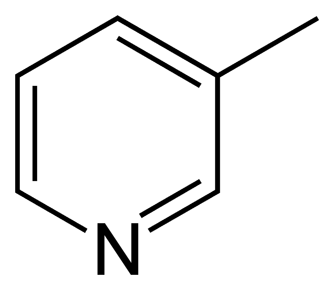 Skeletal formula of 3-methylpyridine